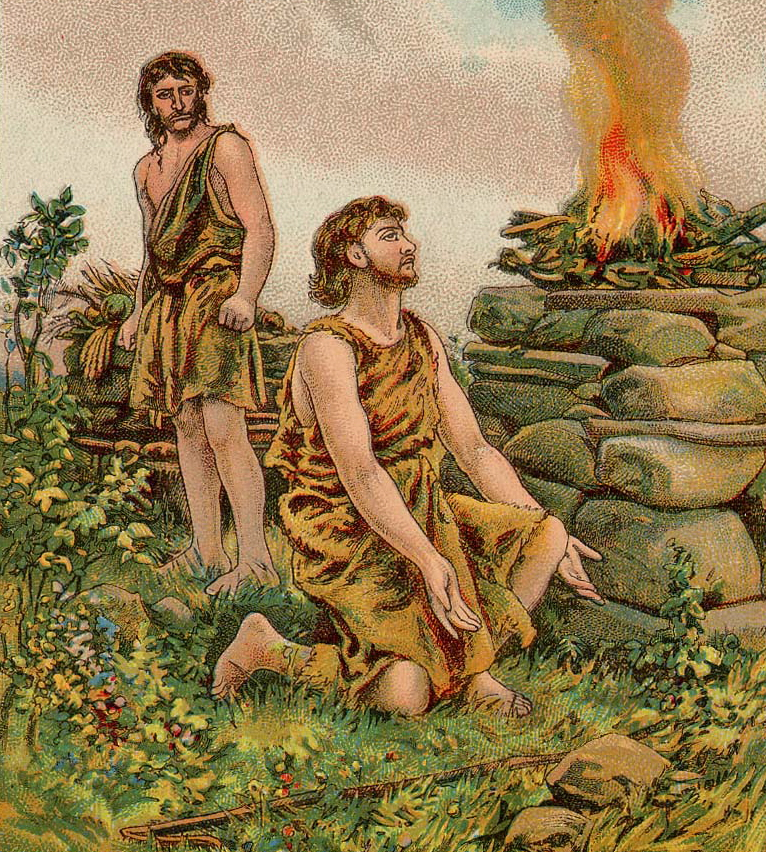 The Story of Cain and Abel; as in Genesis 4:3-15; illustration from a Bible card published by the Providence Lithograph Company